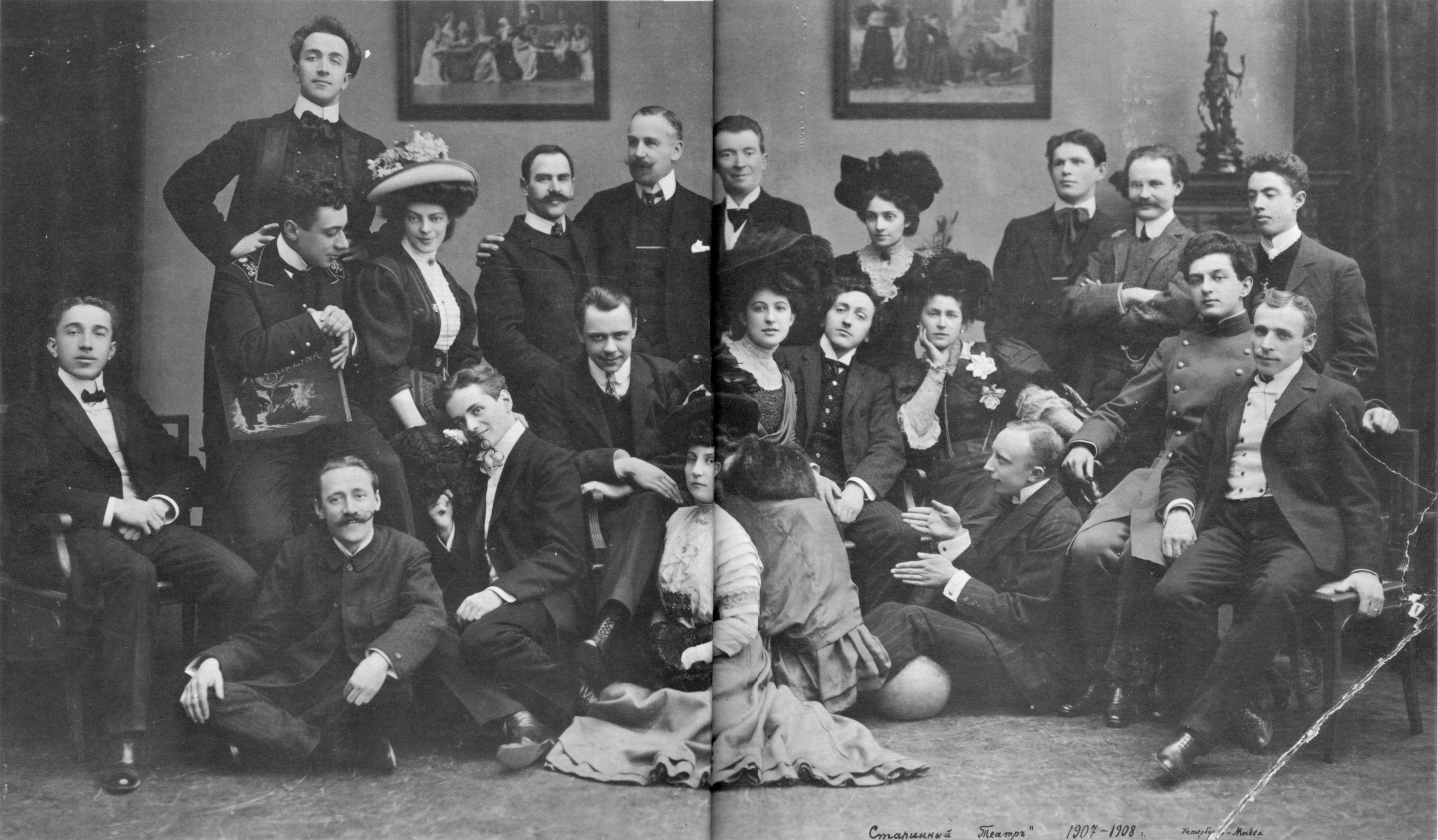 Participants of Studios"Starinnij Teatr". SPb. 1907